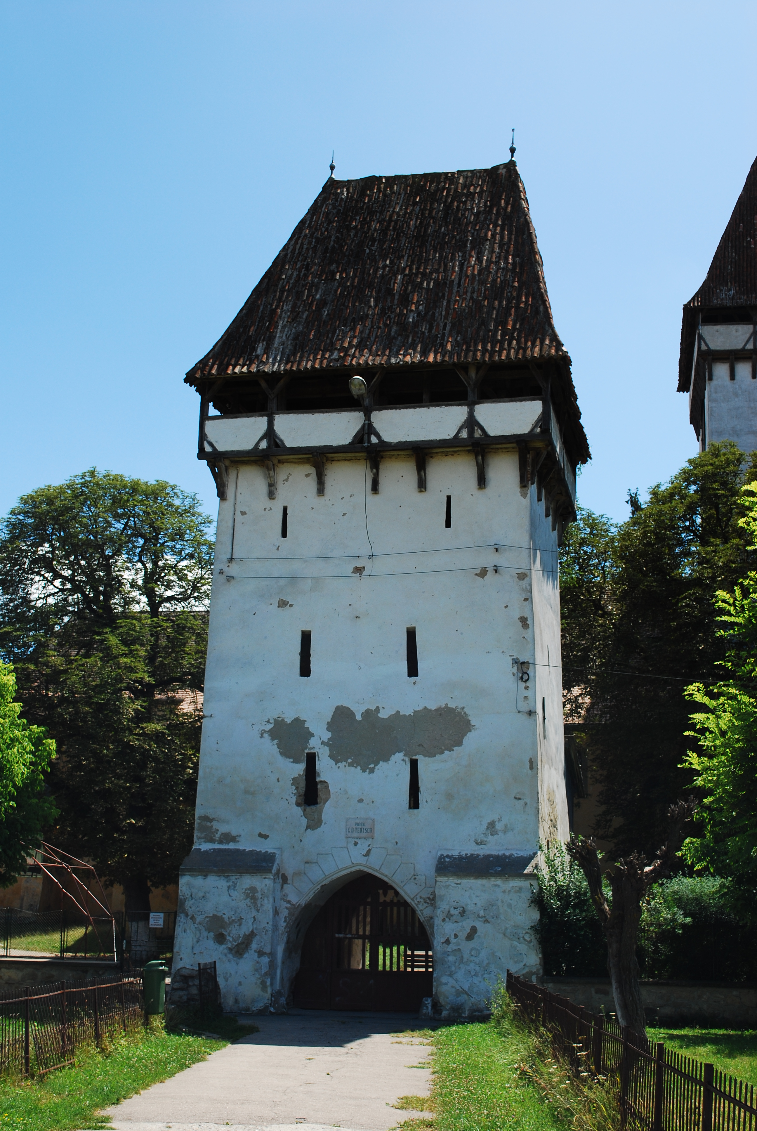 Gate of the fortified church in Agnita, Sibiu County, Romania